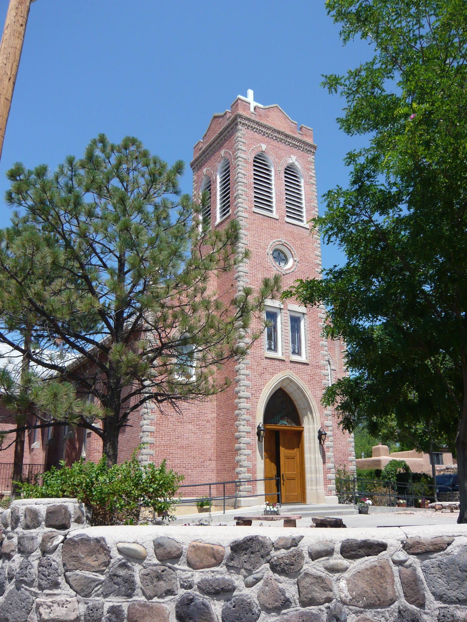 San Juan Pueblo, North of Santa Fe Ohkay Owingeh Pueblo